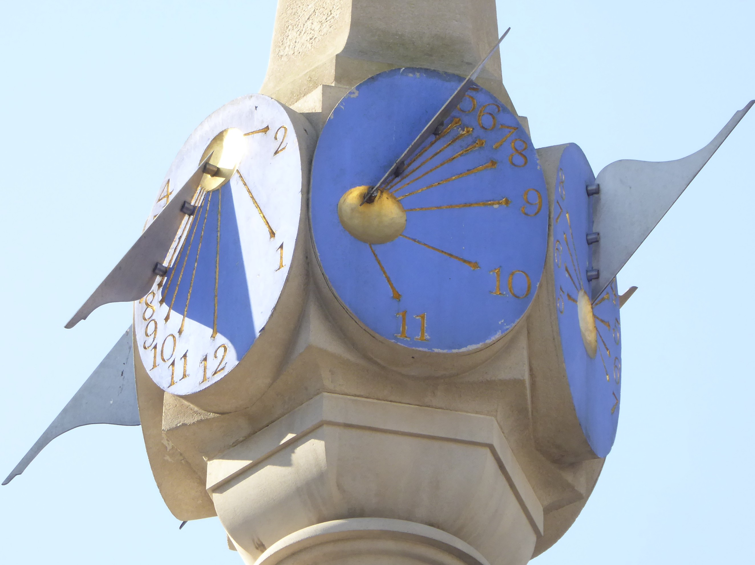 East facing aspect of Seven Dials sundial pillar. Erected in a building scheme of Thomas Neale (1641-1699) Column designed by Edward Pierce in 1693-4, column was removed 1773, then the Seven Dials Trust restored column in 1984, commissioning a dial designed Caroline Webb- mathematics by Gordon Taylor.